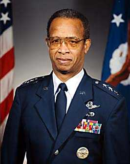 Lt. Gen. Russell C. Davis from [1]